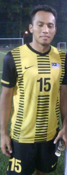 Mahali Jasuli after the friendly match with the Malaysia Olympic Team against Arbil SC of Iraq at Wisma FAM, Kelana Jaya on 7 September 2011.